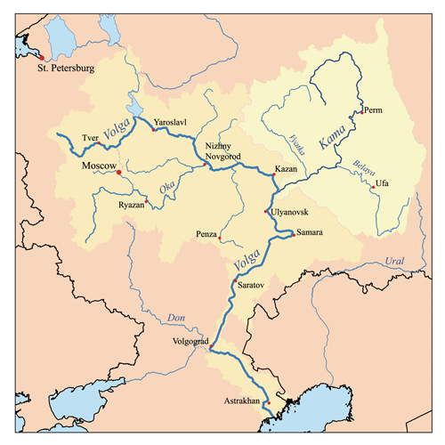 This is a map of the Volga River system with the Kama River highlighted. I, Karl Musser, created it based on USGS data.